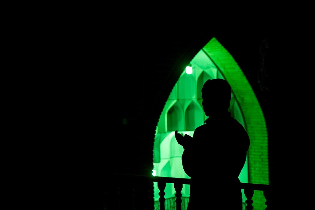 Laylat al-Qadr in Imam Sadiq University. full gallery